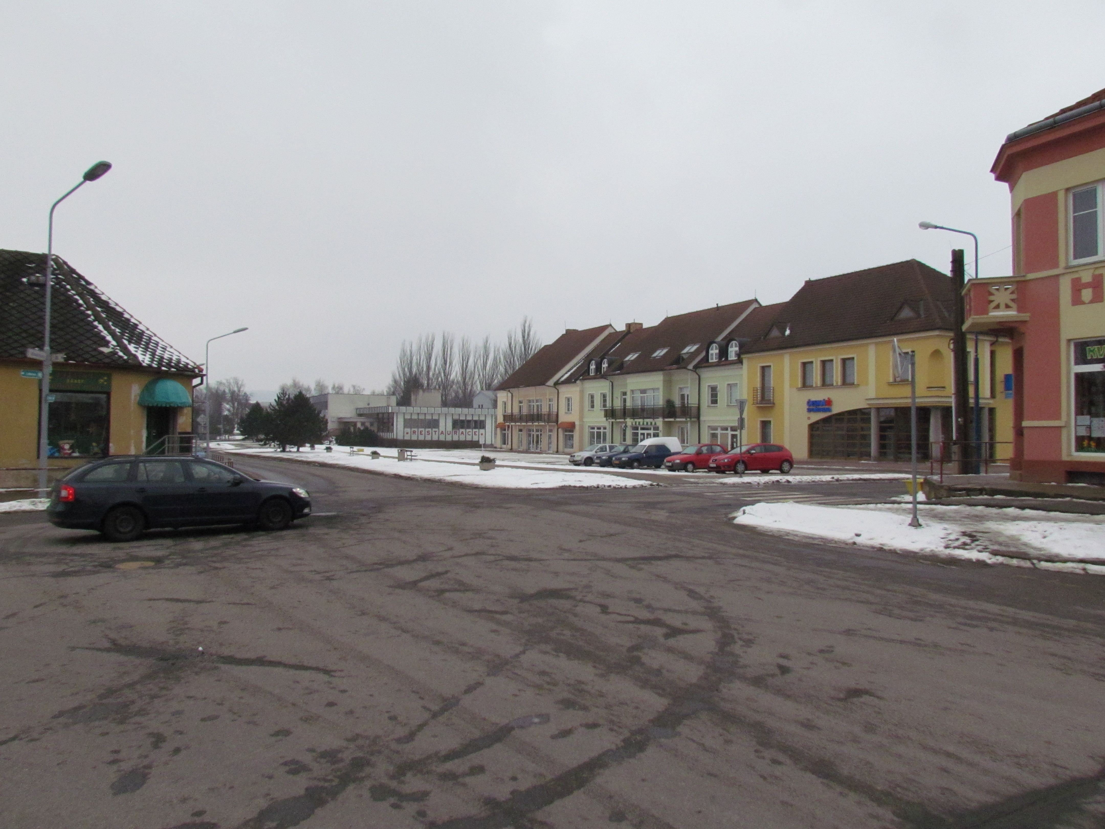 Center of Okříšky in winter, Třebíč District.